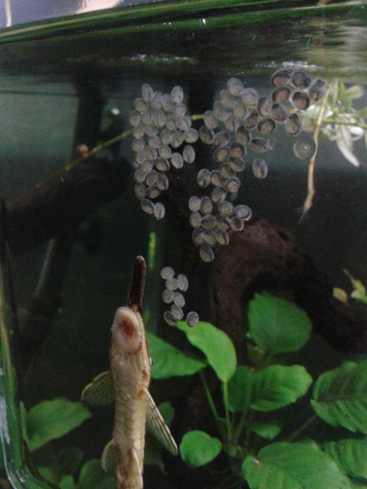 Farlowella acus with fertilized eggs